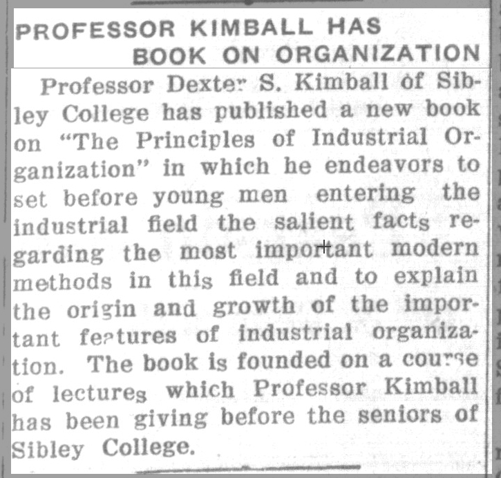 Article in The Cornell Daily Sun, Vol. XXXIV, Nr 101, 16 Feb. 1914